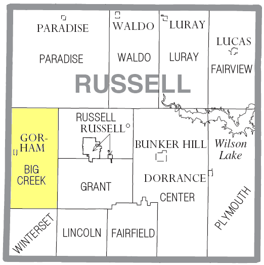 Map of Russell County, Kansas highlighting Big Creek Township